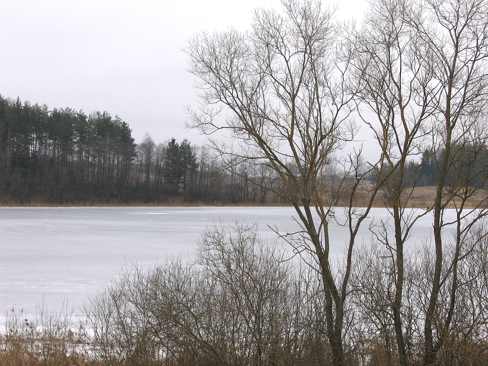 Lake Loboržu